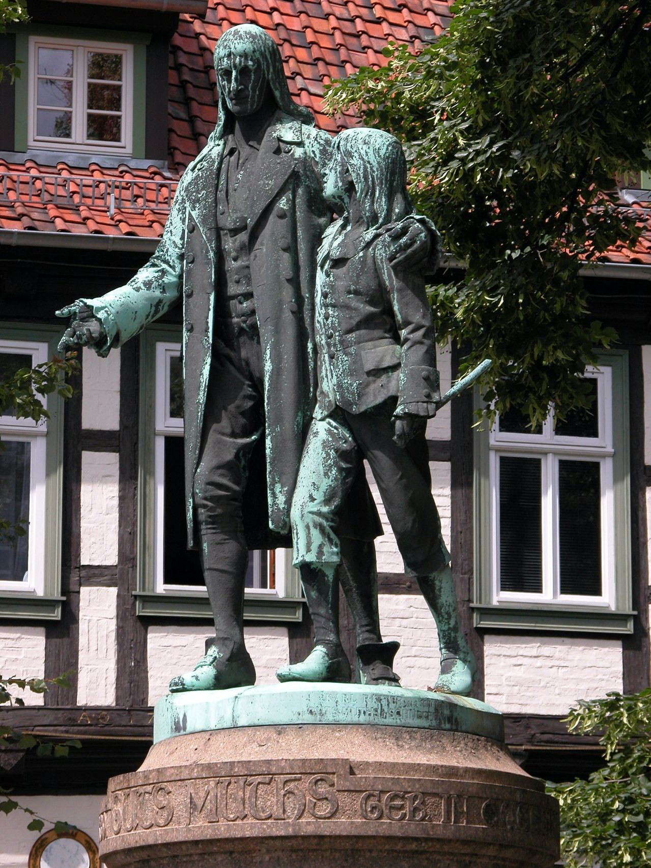 Quedlinburg, Germany: Johann Christoph Friedrich GutsMuths monument.